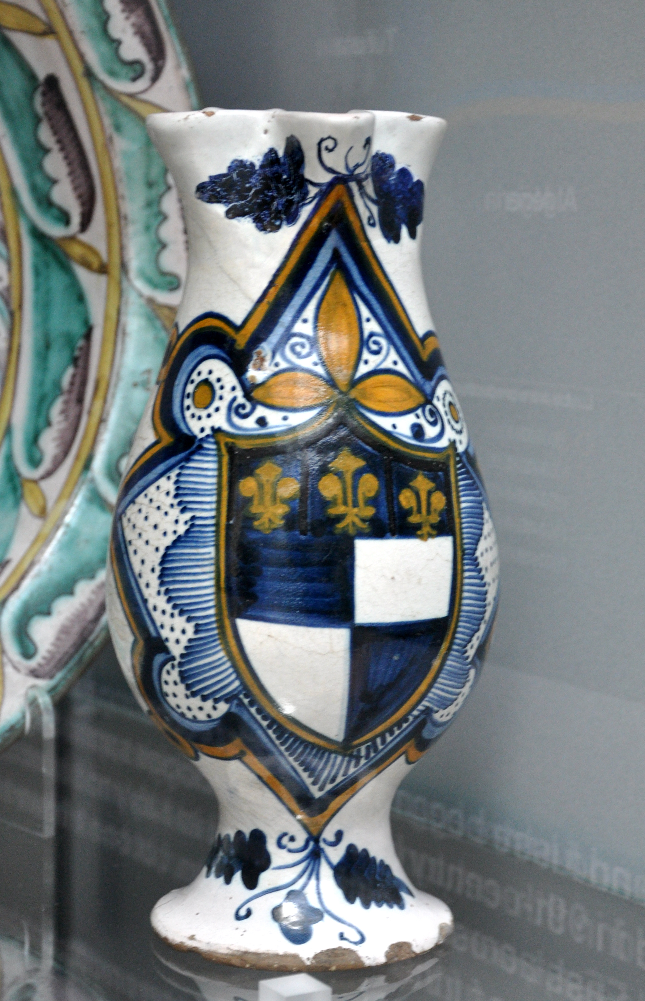 Jug with the arms of the Manfredi family, Faenza, c. 1480; ttin-glazed earthenware, painted in colours Victoria and Albert Museum, London, museum no. C.5-1922 (Link)